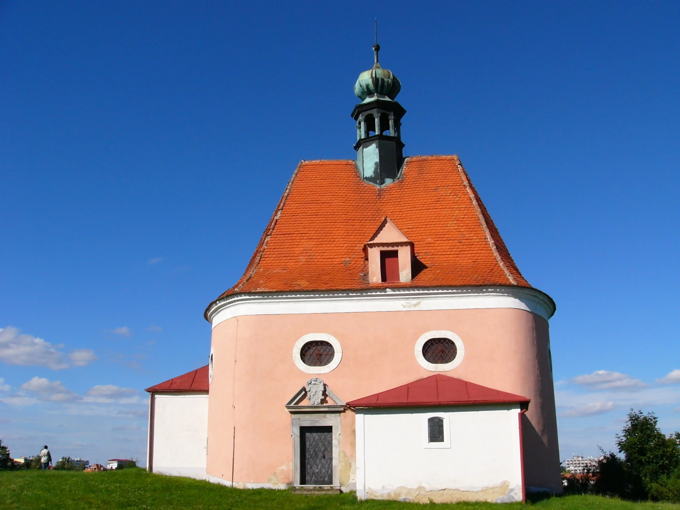 Church of St. Anthony of Padua in Znojmo, CZ